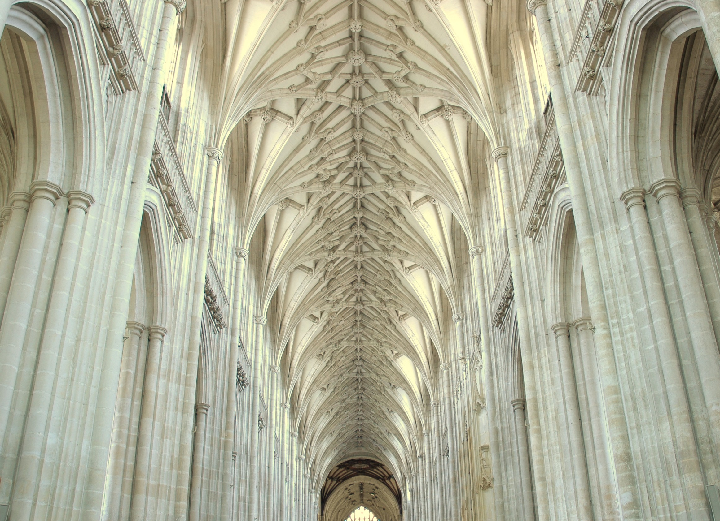 Catedral de Winchester - nau